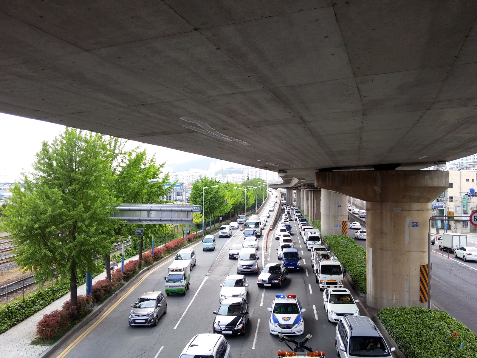 Baegyang-daero under Dongseo Elevated Highway (dongseo gogaro in Korean). Jinyang ramp is shown in the center of image.